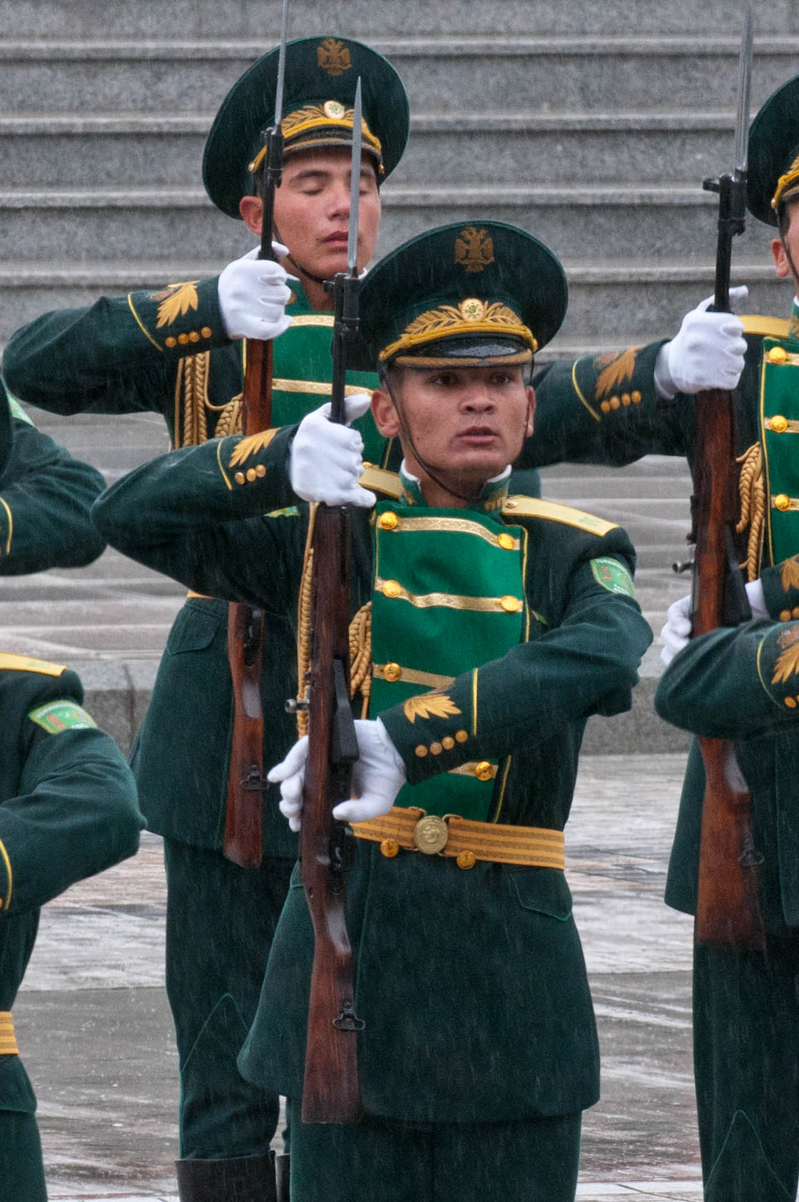 Celebrating the 20th year of independence in Turkmenistan